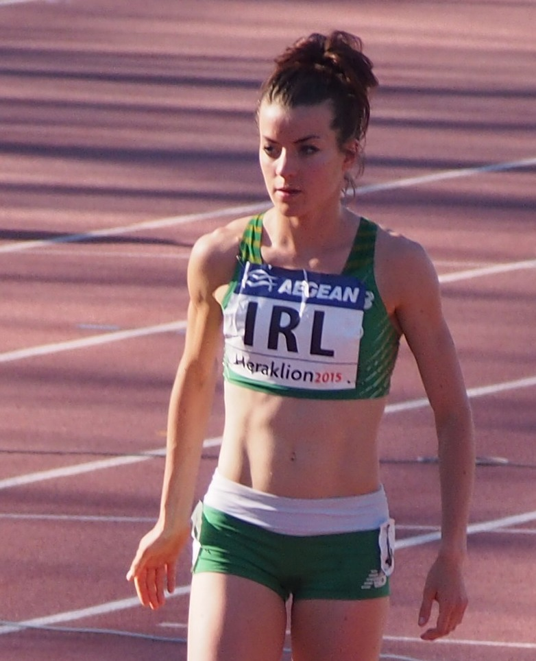 Ciara Everard at 800 m events of the 2015 european team championships First League